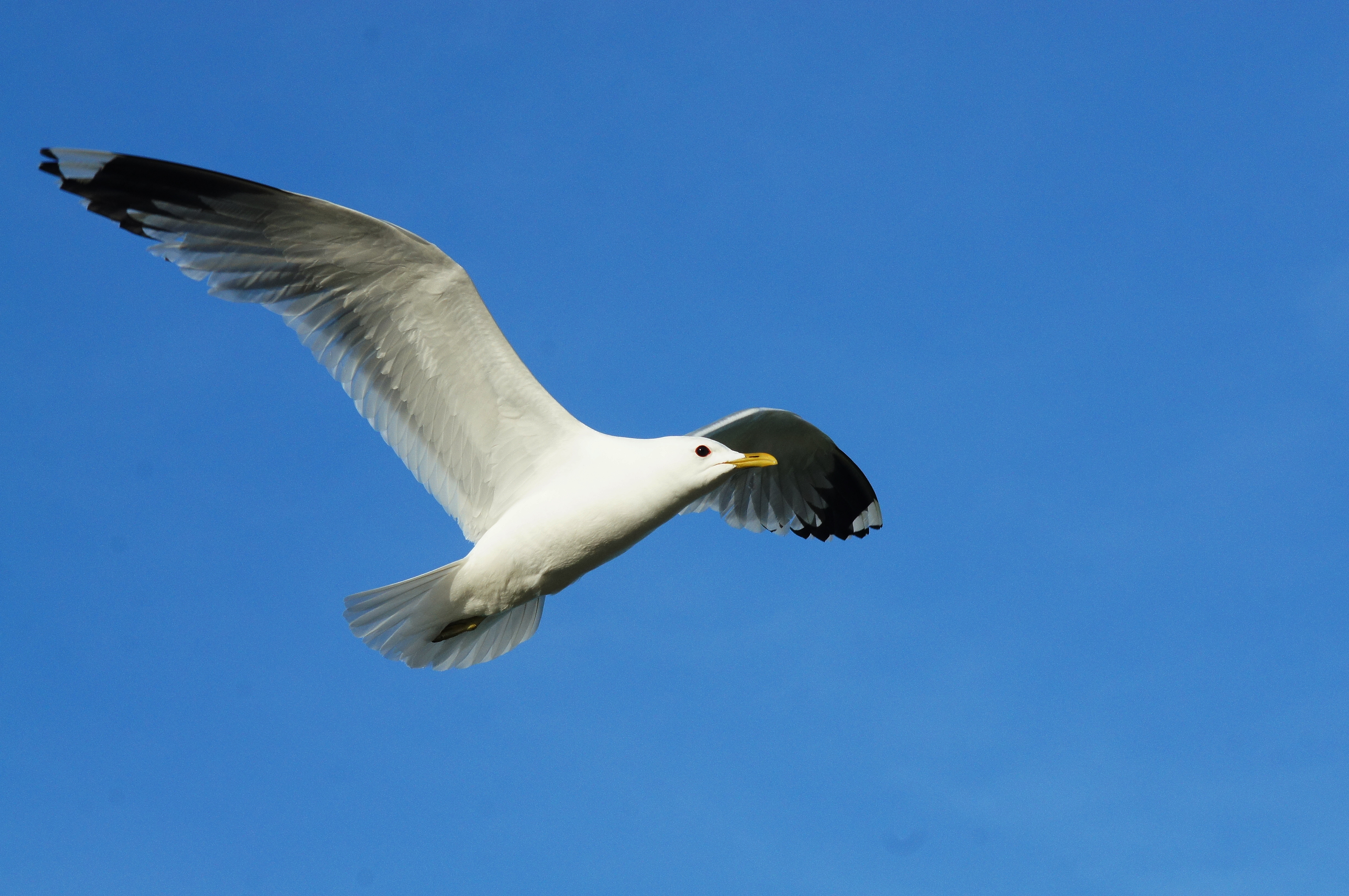 Common gull